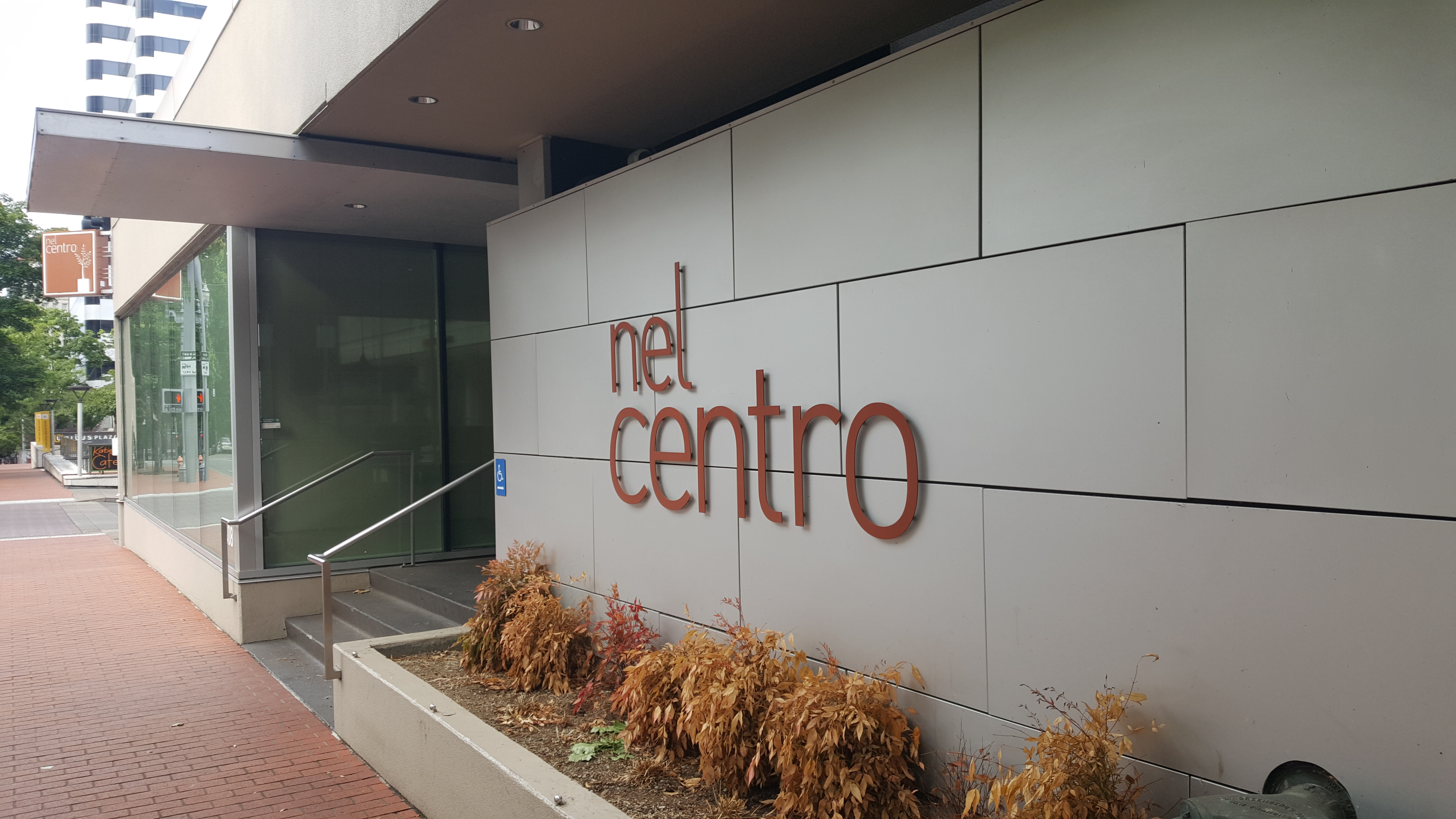 Nel Centro, Portland, Oregon, June 2020